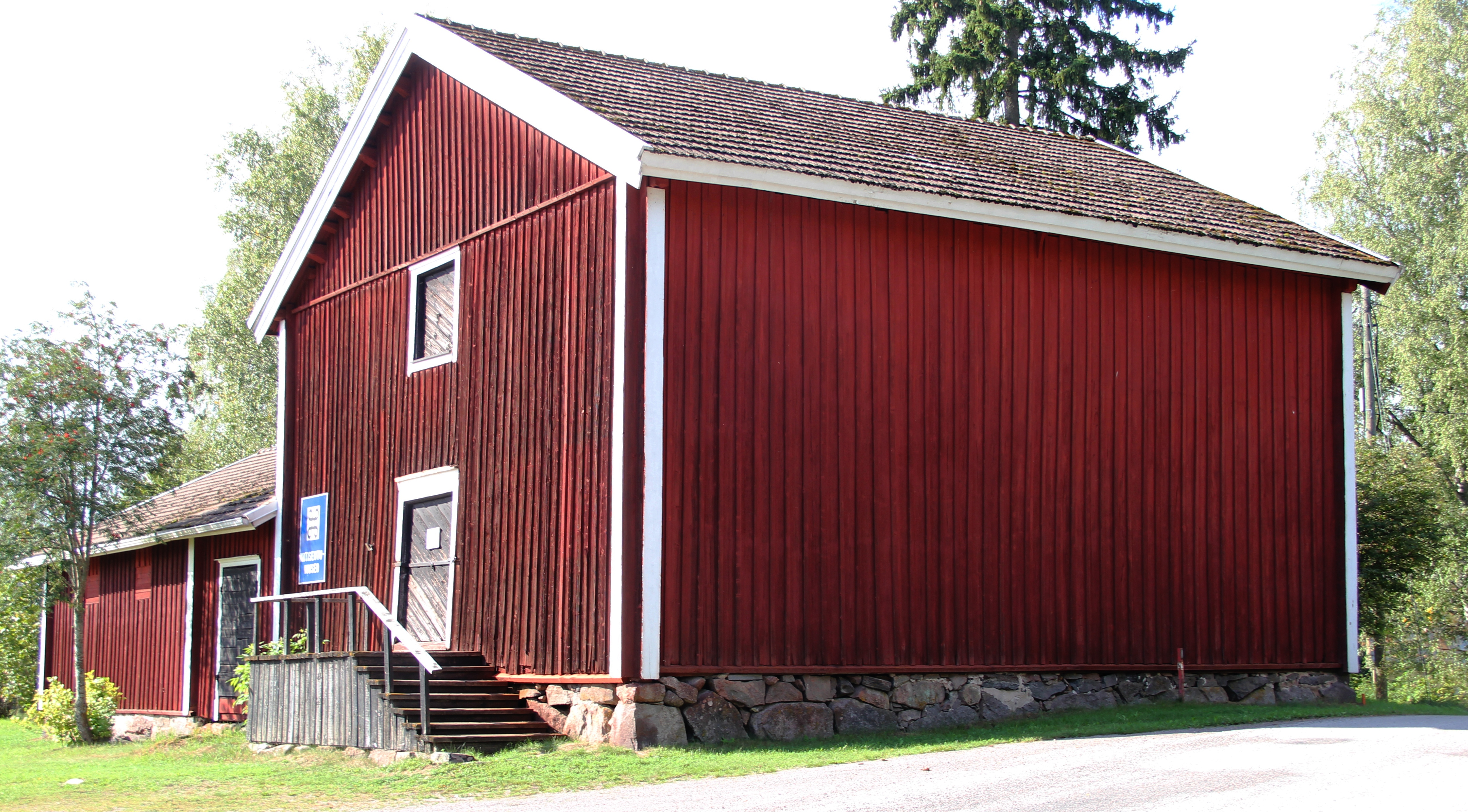 Askola museum, former Parish granary, in Askola, Uusimaa, Finland